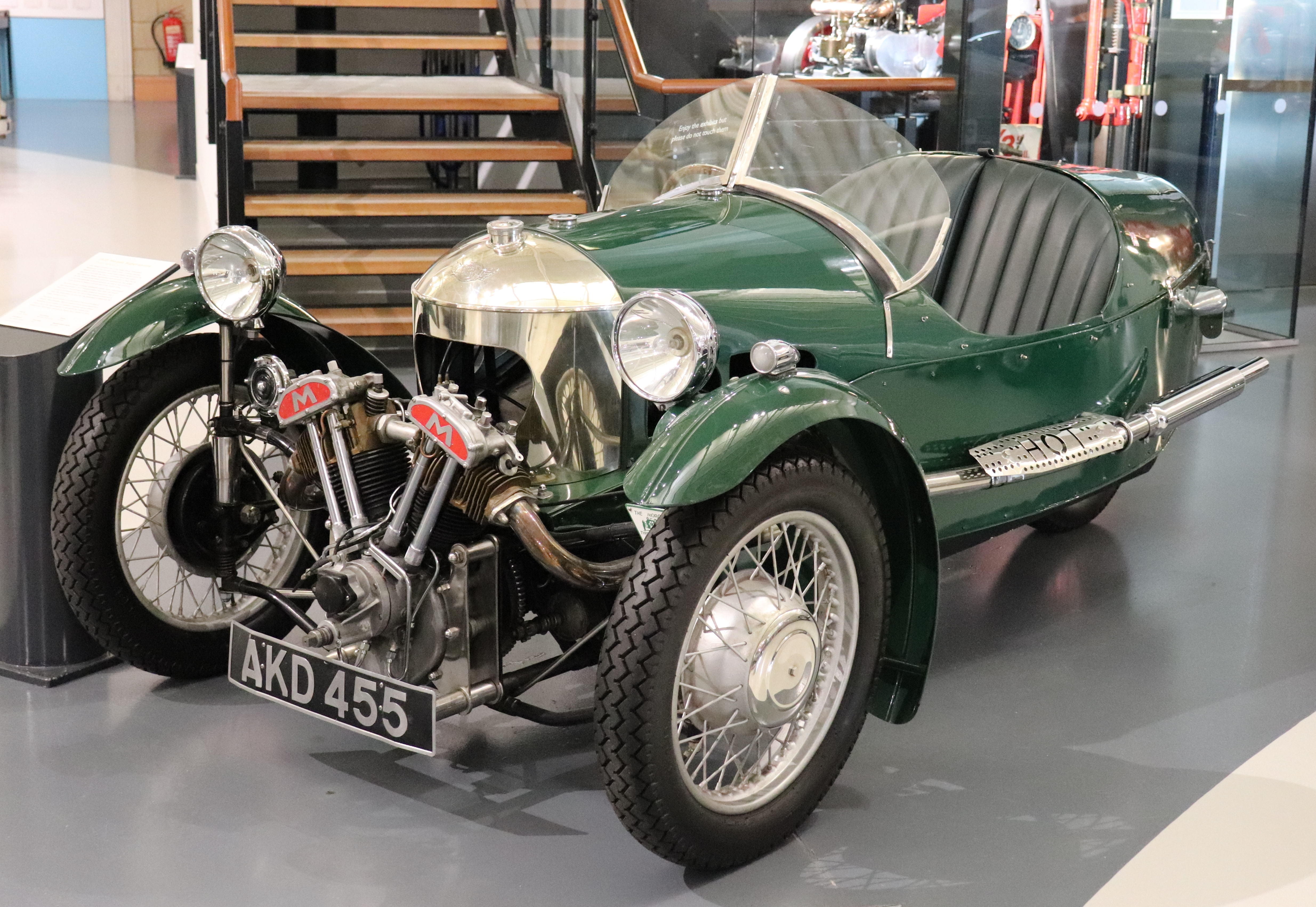 1935 Morgan Super Sport 1.0 Taken at the British Motor Museum, Gaydon